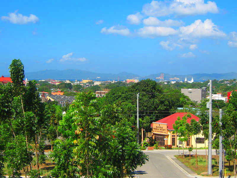 This image depicts Poblacion, Batangas City; Batangas Bay and Calumpang Peninsula (mountain ranges at the background) from Jesus of Nazareth Hospital at Brgy. Gulod Labac, Batangas City, Philippines. Tagalog: Ipinapakita ng larawang ito ang Poblacion, Lungsod ng Batangas; Look ng Batangas at Tangway ng Calumpang (ang bulubundukin sa kaligiran) mula sa Ospital ng Hesus ng Nazareth sa Brgy. Gulod Labac, Lungsod ng Batangas, Pilipinas.